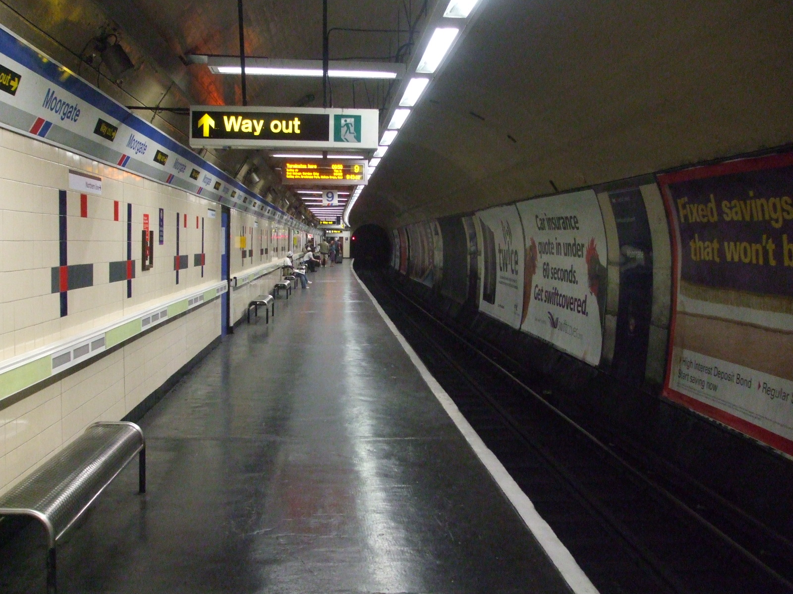 Moorgate station Great Northern (First Capital Connect) platform 9 looking south to buffers. The other GN terminating tunnel is platform 10.